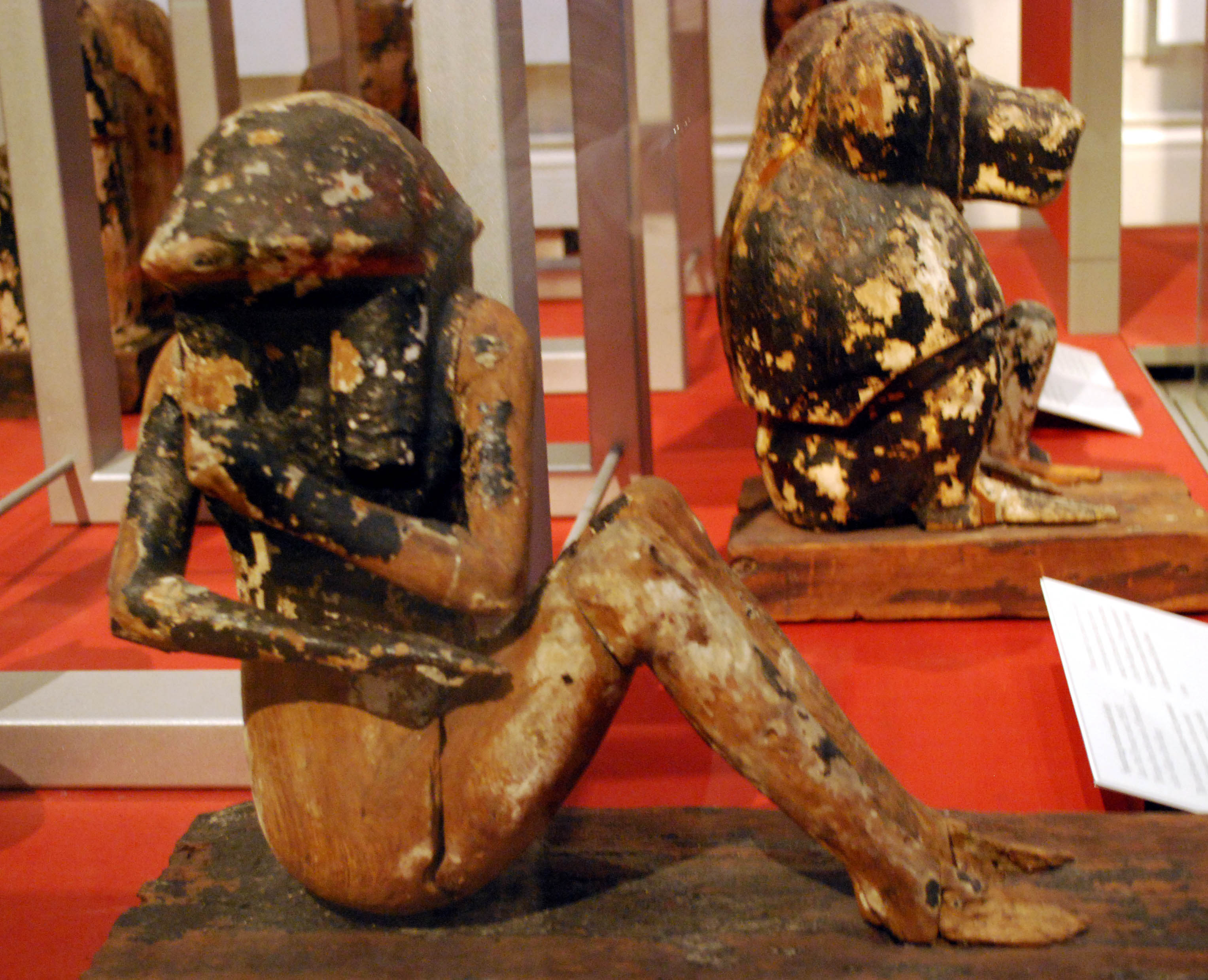 Statue of an turttle-headed deity in a twist attitude. Perhaps from the tomb of Horemheb, King Valley Nr 57. New Kingdom. British Museum.